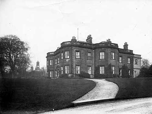 Gledhow Hall, near Leeds c.1890